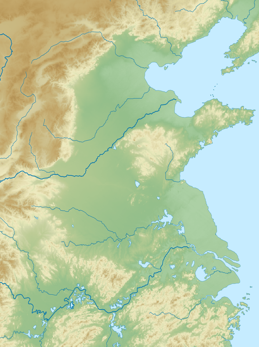 A relief map of the North China Plain and surrounding areas. Equirectangular projection, N/S stretching 122%. Section of Natural Earth Cross Blended Hypso with Shaded Relief, Water, and Drainages from (public domain) Reframed version.